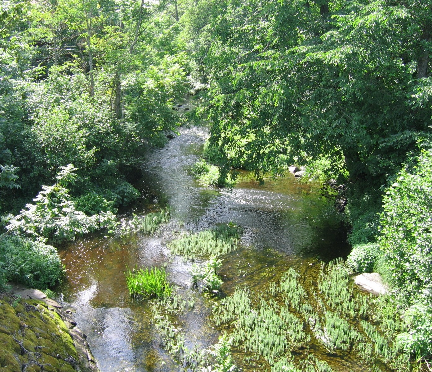 Part of Björklingeån ("river of Björklinge"), a tributary of the river Fyris in Uppland, Sweden.